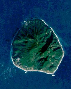 Landsat picture of Mikurajima Island, Izu Islands, Japan.